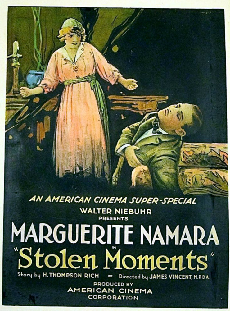 Window poster for the 1920 film Stolen Moments.